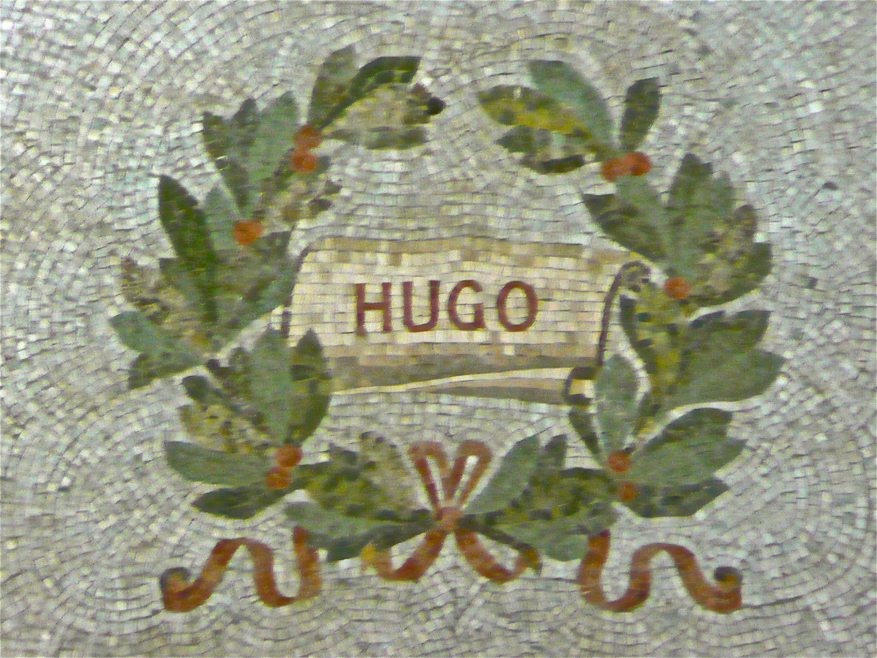 Victor Hugo mosaic. From ceiling of the Great Hall of the Library of Congress. Photo taken at the LOC 2012 Flickr Photo Meetup